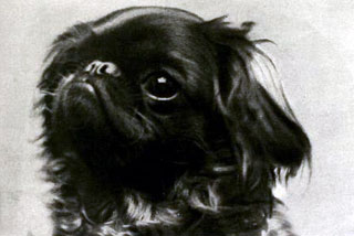 Headshot of Ruby Spaniel Ch. Red Clover. The dog was owned by Mrs. Sonnehorne Sneider. Published in London by Duckworth. No author information is given for any of the illustrations in the book.